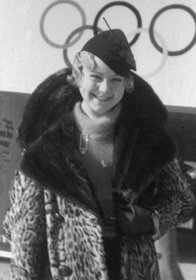 Sonja Henie of Norway relaxes between events during the 1936 Winter Olympic Games in Garmisch-Partenkirchen, Germany. Henie won the gold medal in the Women's Figure Skating event.